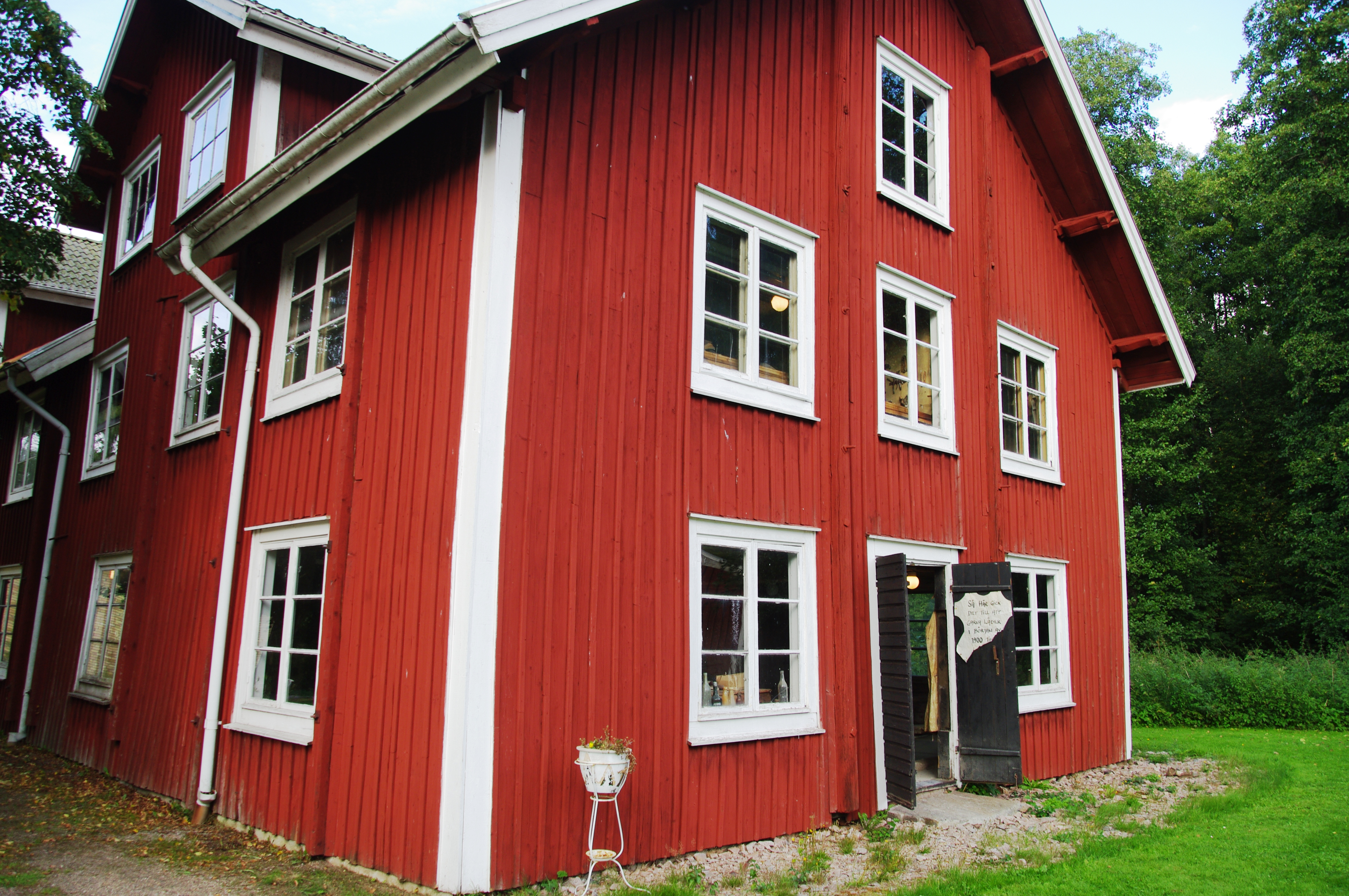 Ryssby tannery, Ljungby produced tanned hides and shoes for nearly 125 years. When the tannery closed in 1941 virtually al maschinery was left intact in the building.